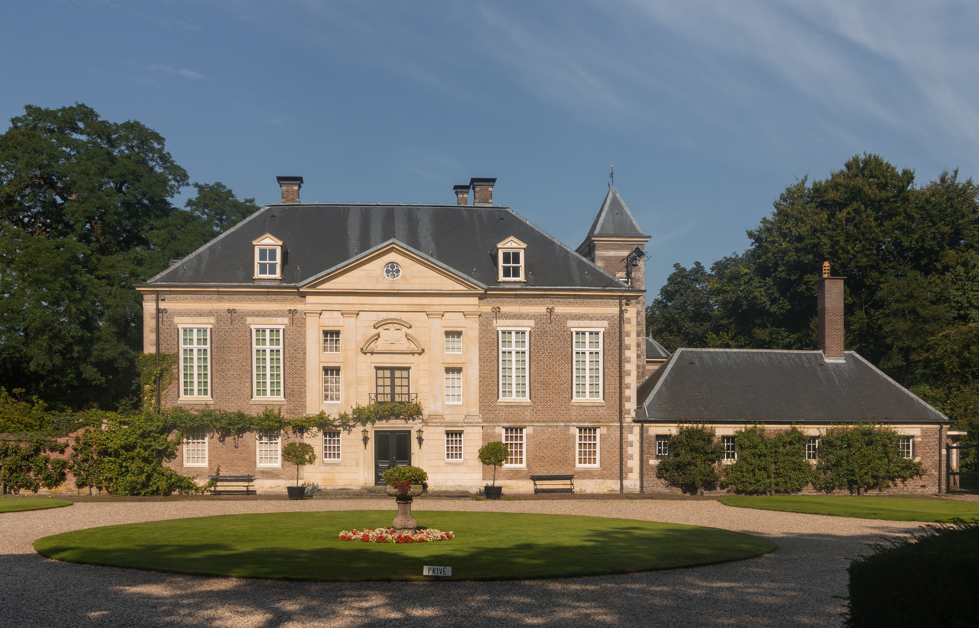 Diepenheim, castle: Huis Diepenheim